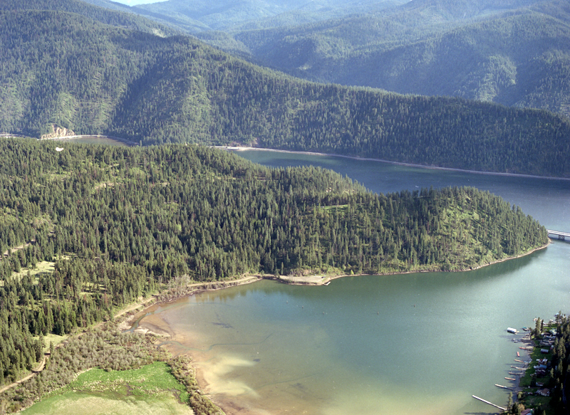 The roadtrip stops in Coeur d’ Alene - a “gem of the north” - valued by locals and visitors alike for its beautiful scenery, recreational opportunities and variety of amenities. This serene, scenic area is also the perfect spot to escape crowds! Beautiful Lake Coeur d’Alene offers outstanding fishing, hiking, boating and nature viewing. Three boat launch sites are available at Blackwell Island, Mineral Ridge and Killarney Lake. Overnight boating guests will enjoy three boat-in campgrounds at Popcorn Island, Mica Bay and Windy Bay Boater Parks. Hiking in this area is a popular way to view spectacular vistas of Lake Coeur d’ Alene. The 3.3-mile Mineral Ridge National Recreation Trail is an invigorating and educational hike. As visitors meander down this trail, they will learn about forest plants, animals and their interrelationships at 22 stations. Wildlife viewing is a key attraction to this region. Each winter, from November through February, a migrating population of up to 150 bald eagles visits the area to feed on spawning kokanee salmon. BLM and partners host bald eagles tours and counts each year. And the BLM and partners host an osprey cruise annually for the public, with live bird exhibits from local birding experts. As you leave this amazing roadtrip stop, check out the views from the comfort of a car on the beautiful Lake Coeur d’Alene Scenic Byway. You’ll find lakes and mountains around every curve on this scenic tour of the countryside.